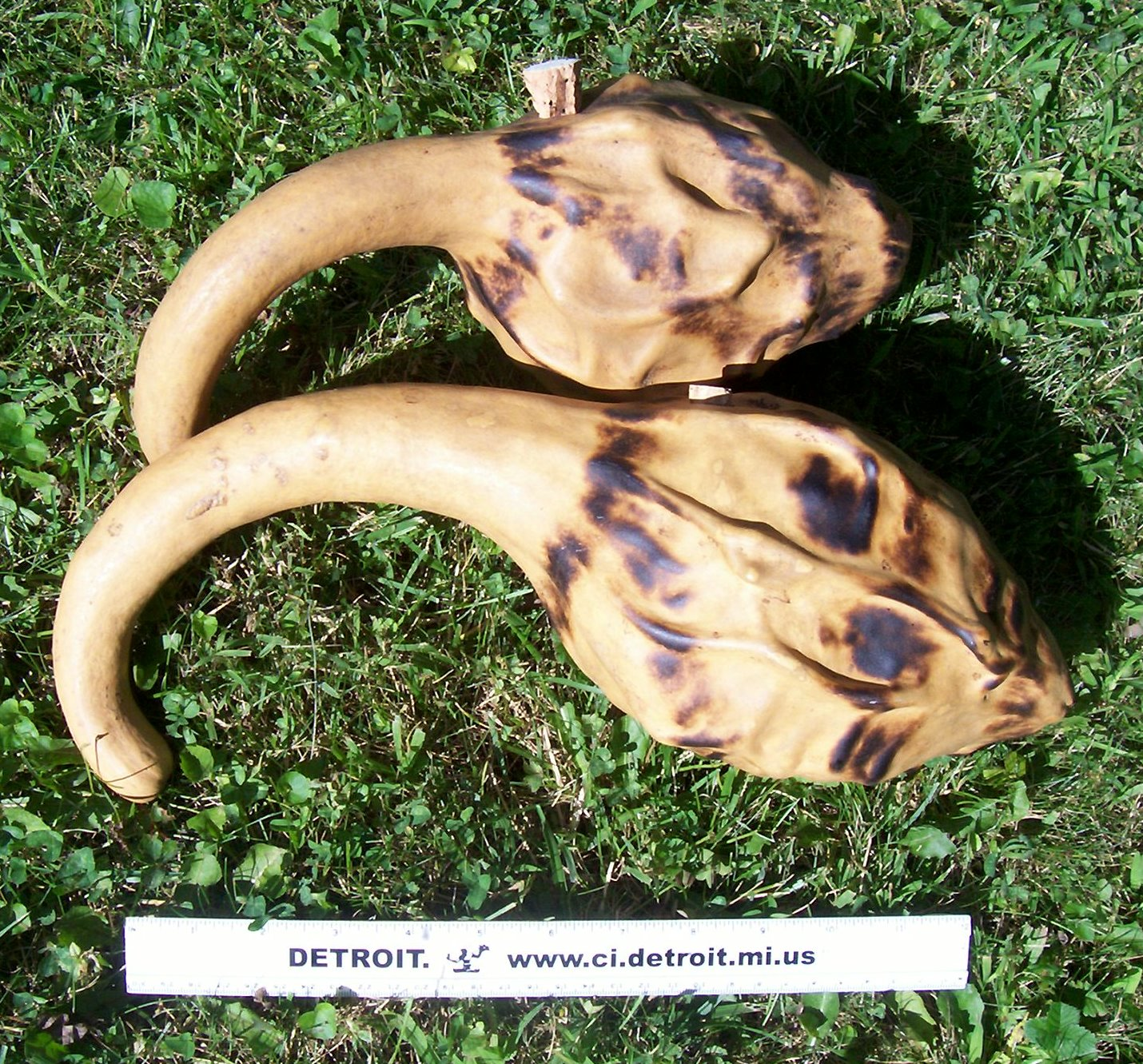 Kofi's Hosho - 2008